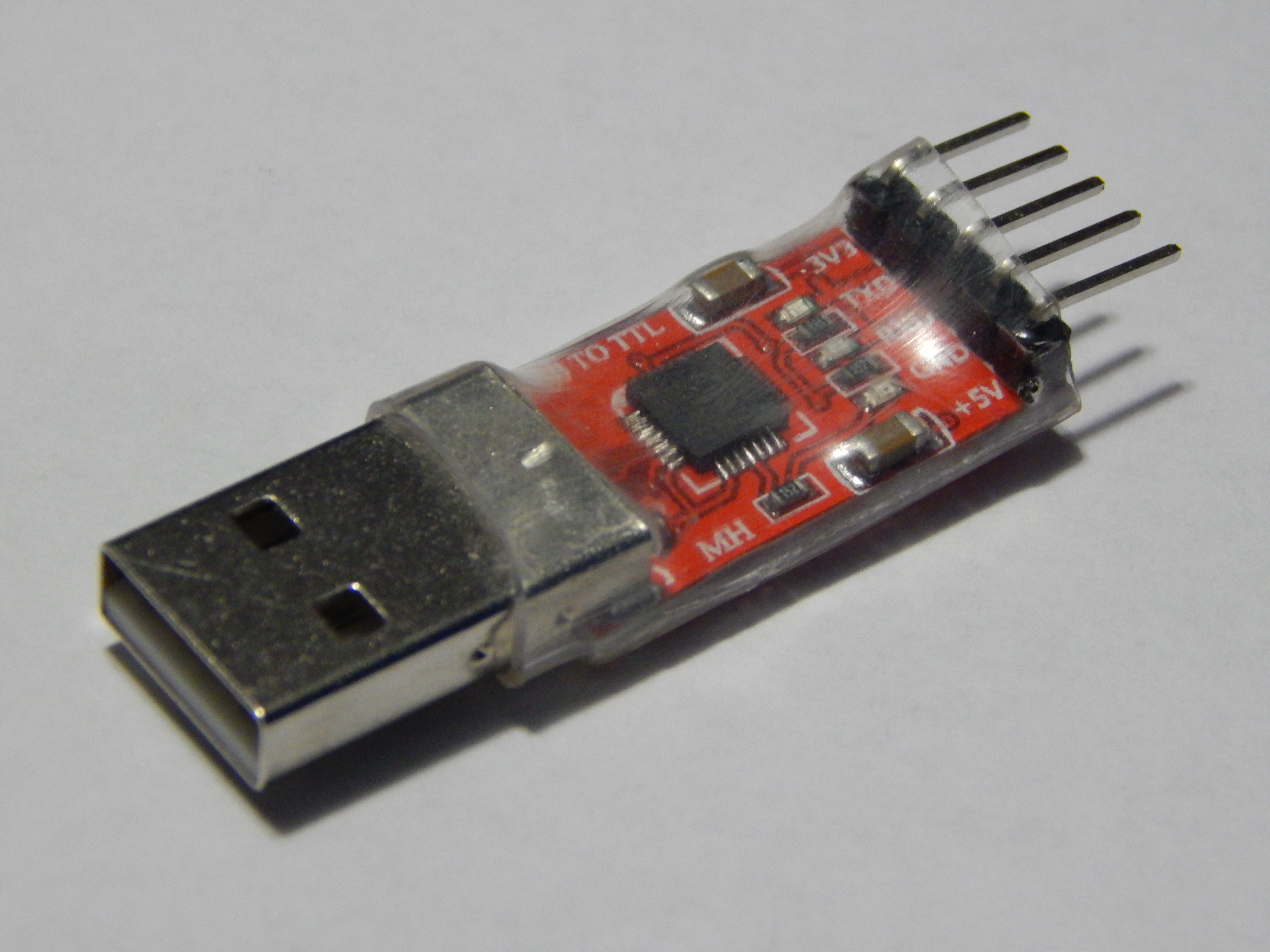 This adapter is used to connect to a device using UART over USB. The device's circuits are covered with a rubber cover, to prevent damage while handling.